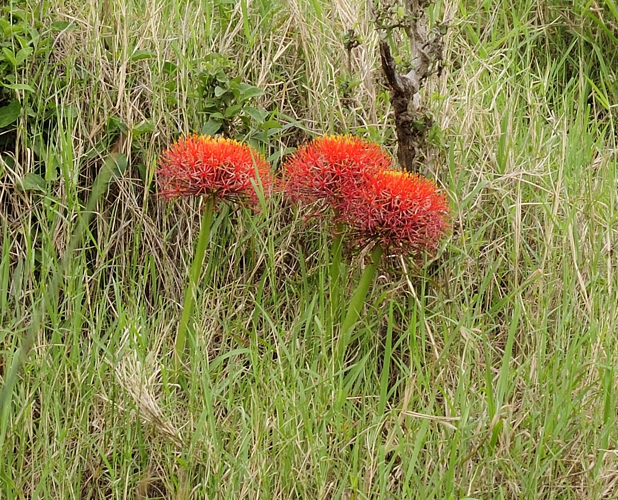 Scadoxus multiflorus growing in Arusha National Park, Tanzania. The location implies it is Scadoxus multiflorus subsp. multiflorus.